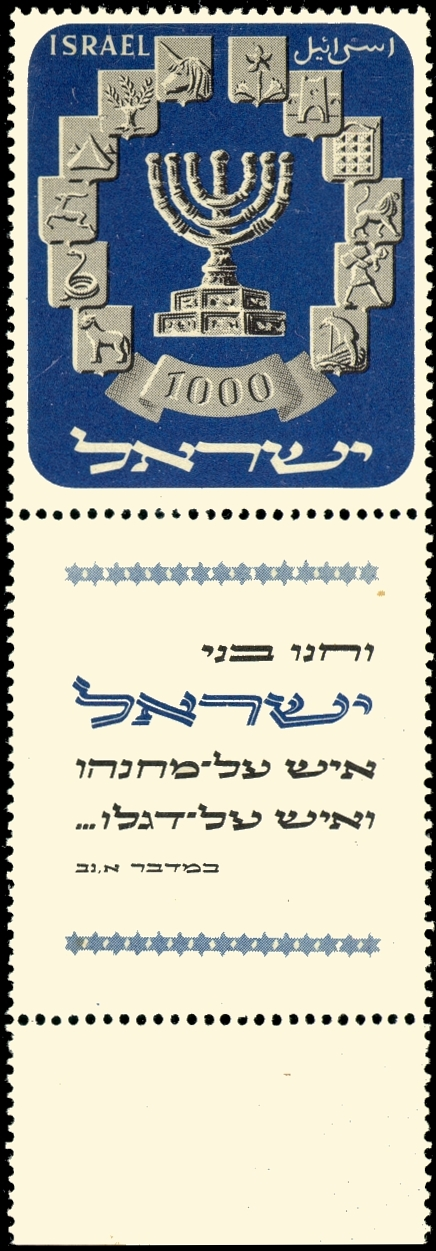 Menorah 1952 stamp - 1000 mil. Inscription on tab: "...And the children of Israel shall pitch their tants, every man by his own camp and every man by his own standard..." Numbers I, 52.